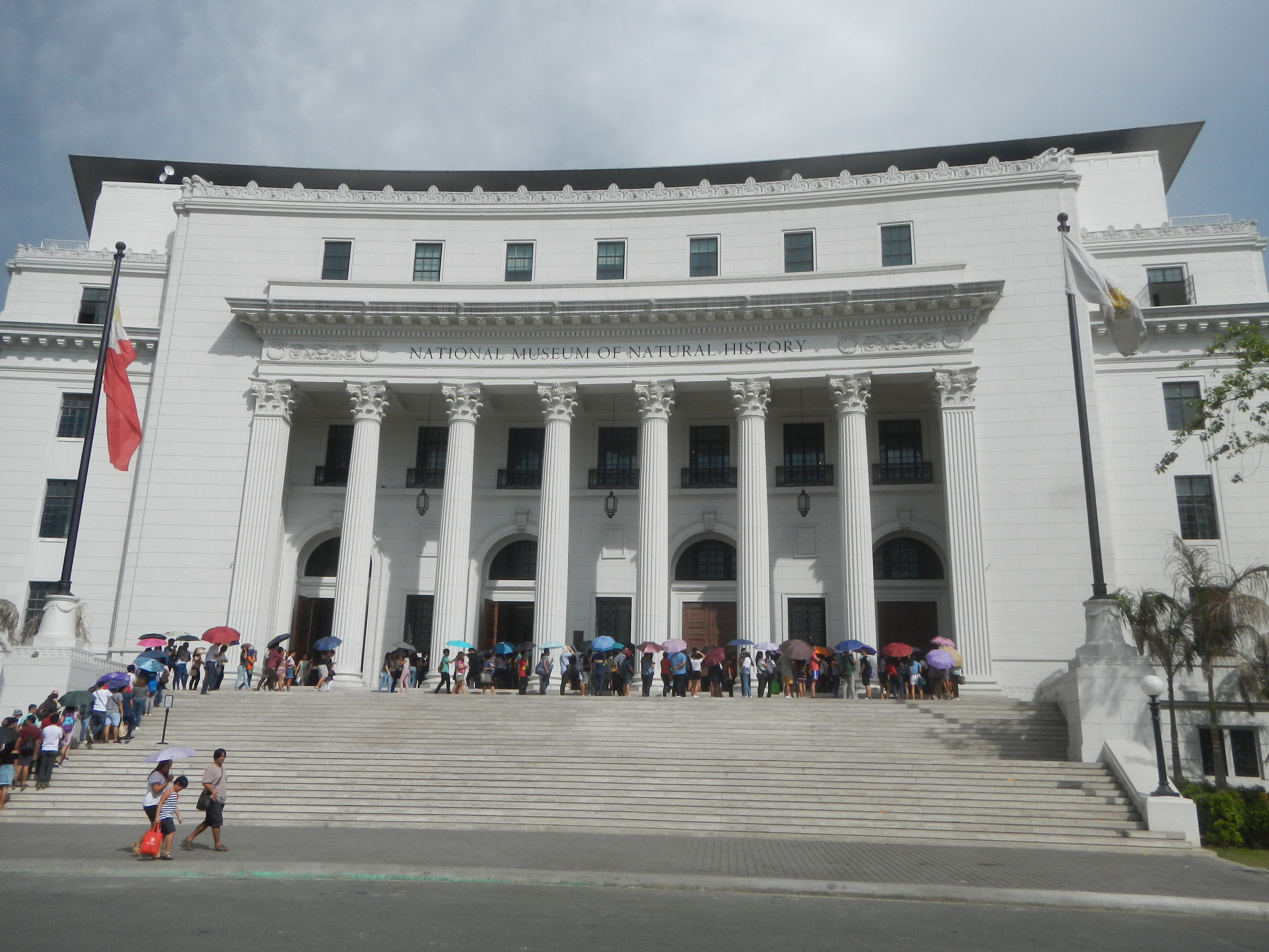 Agrifina Circle 14°35'3"N 120°58'53"E Exterior of the National Museum of Natural History (Manila) National Museum of Natural History (Ground floor - Tree of Life Foyer, Introduction) National Museum of Natural History (Manila) (Note: Judge Florentino Floro, the owner, to repeat, Donor Florentino Floro of all these photos hereby donate gratuitously, freely and unconditionally all these photos to and for Wikimedia Commons, exclusively, for public use of the public domain, and again without any condition whatsoever).